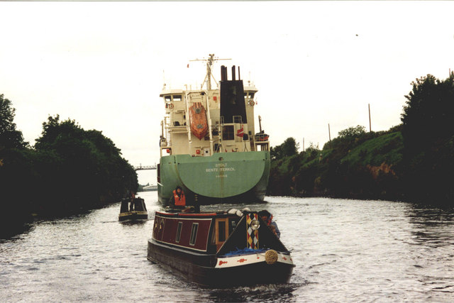 Little & large on the Manchester Ship Canal Stragglers from the flotilla organised by the Inland Waterways Association to mark the Centenary of the Ship Canal were suddenly presented with having to squeeze past an ocean-going freighter as they approached Latchford Locks.